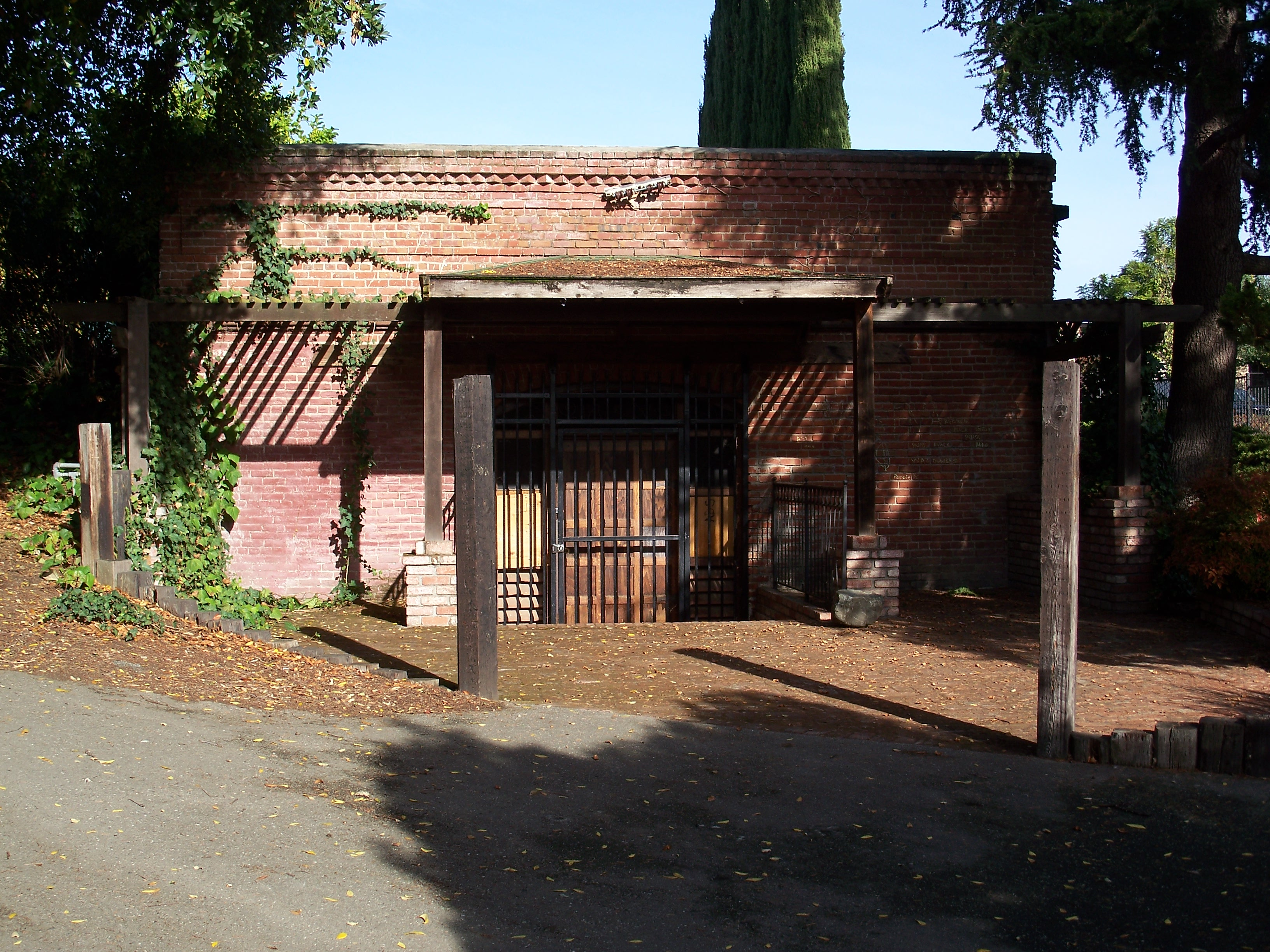 Original building of Almaden winery. San Jose, California, USA More details about subject